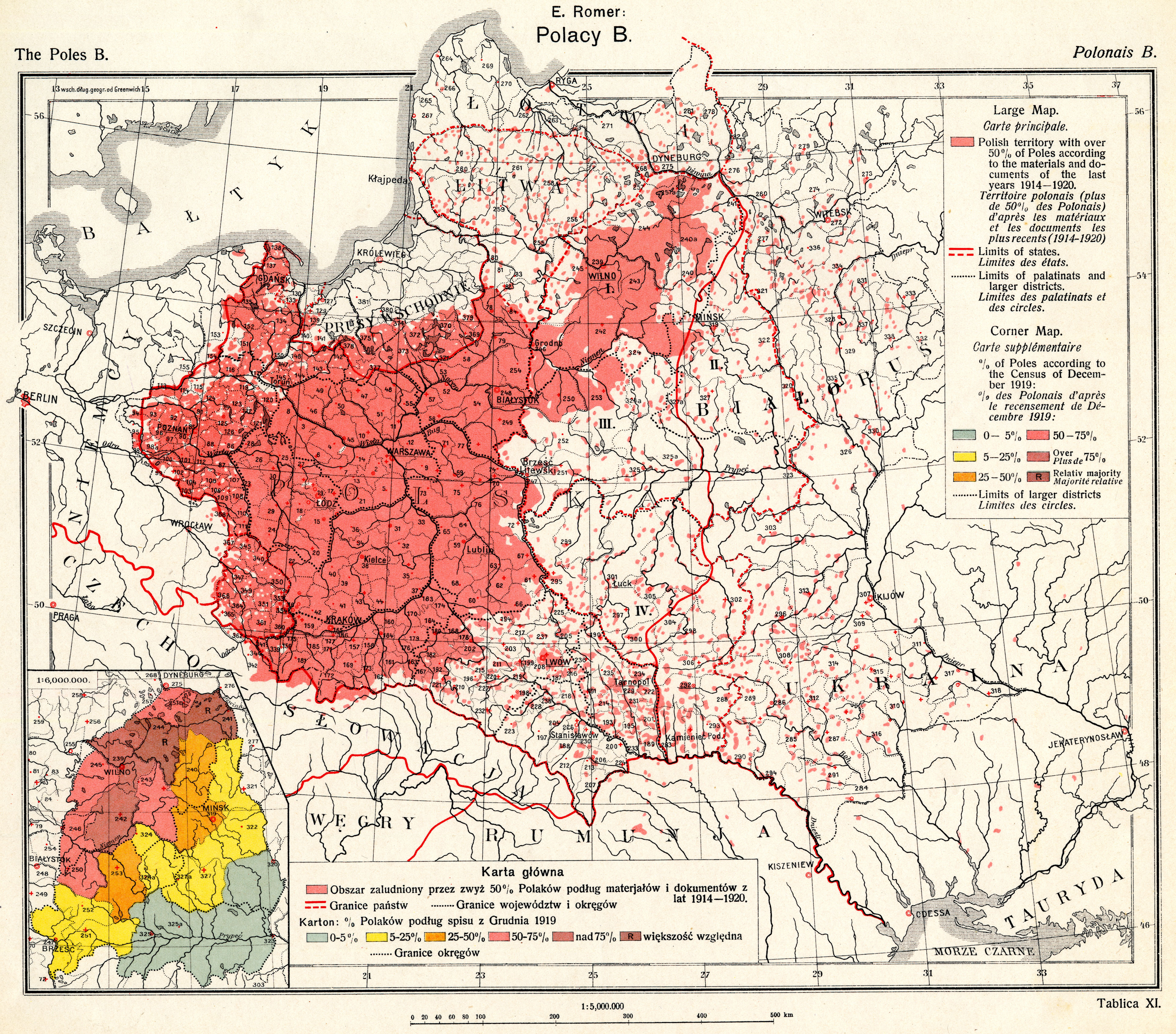 Plate XI, "Polacy B", from Geograficzno-Statystyczny Atlas Polski by Dr. Eugenjusz Romer, published in Lwow in 1921. Shows the density of Polish population in and around what is now Poland "according to the materials and documents of the last years 1914-1920". Scanned by Maproom in 2007.